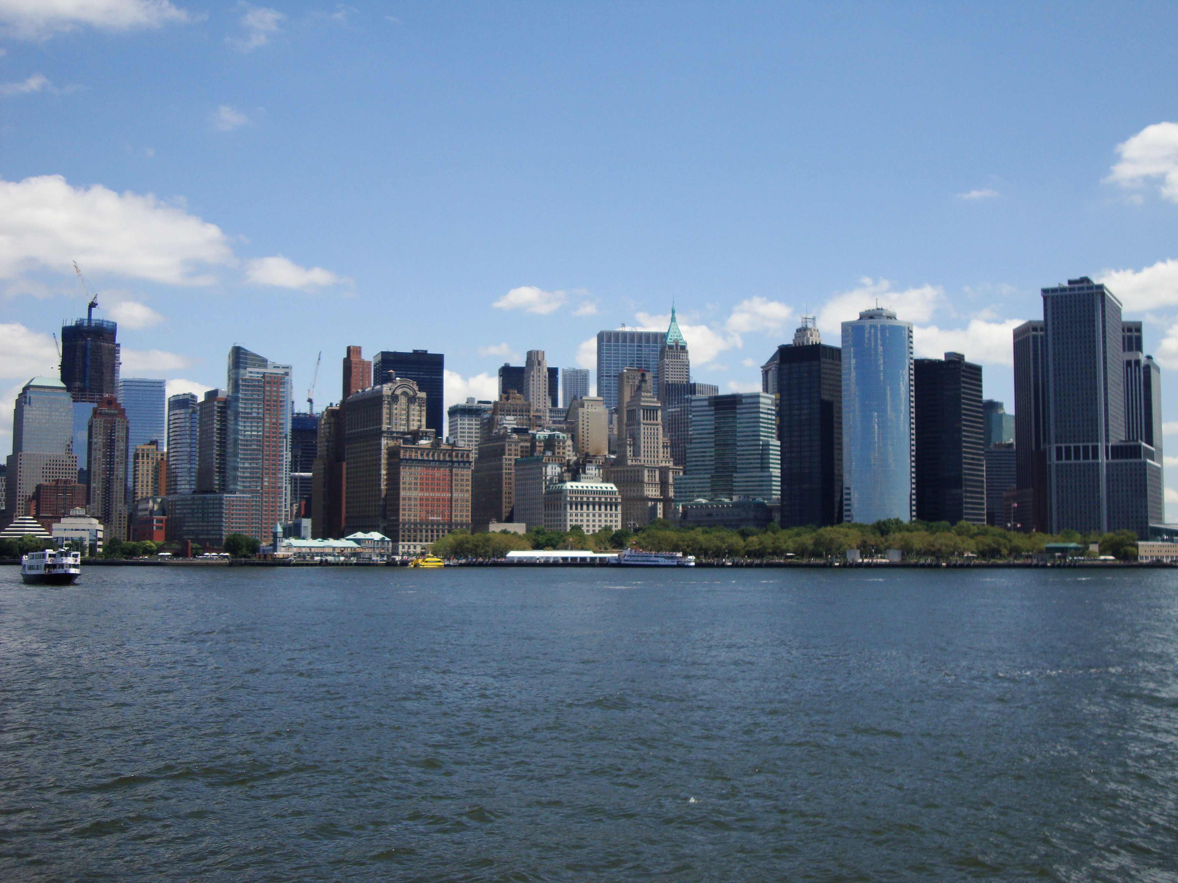 la ciudad de Nueva York